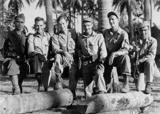 The joint and combined military force of the American and Filipino soldiers under the United States Army, Philippine Commonwealth Army and Philippine Constabulary under the restoration of the Commonwealth Government was aided to fought with the recognized guerrillas on the Allied Liberation of the Philippines from the Japanese Occupation from 1944 to 1945 and including left to right: Army Lieutenant Hombre Bueno (Philippine Commonwealth Army), Army Lieutenant William Farrell (United States Army), Guerrilla Leader Major Robert Lapham (Recognized Guerrilla Unit, Luzon Guerrilla Armed Force (LGAF)), Army Lieutenant James O. Johnson (United States Army), Army Lieutenant Henry Baker (United States Army), and Guerrilla Leader Lieutenant Gofronio Copcion (Recognized Guerrilla Unit, Luzon Guerrilla Armed Force (LGAF) Johnson and Farrell were graduates of the third Alamo Scouts Training Class. Baker graduated from the seventh training class and was retained as an instructor.).